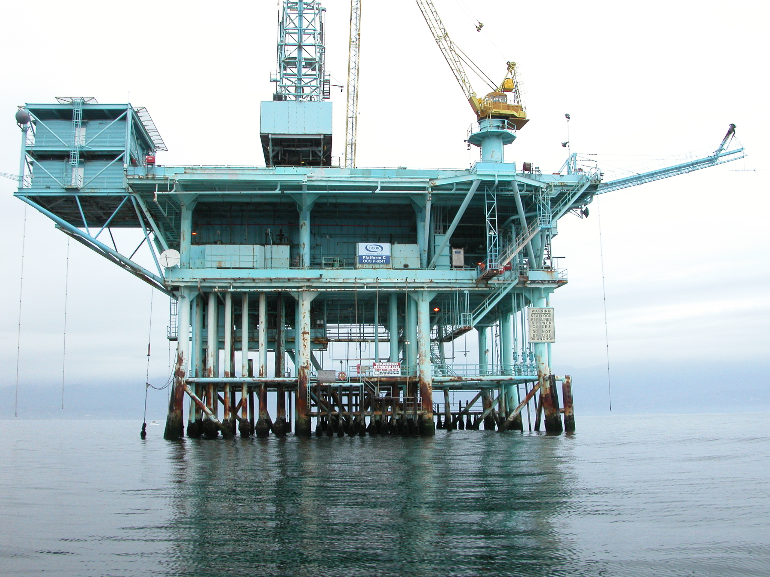 Platform C, Dos Cuadras offshore oil field, Santa Barbara.